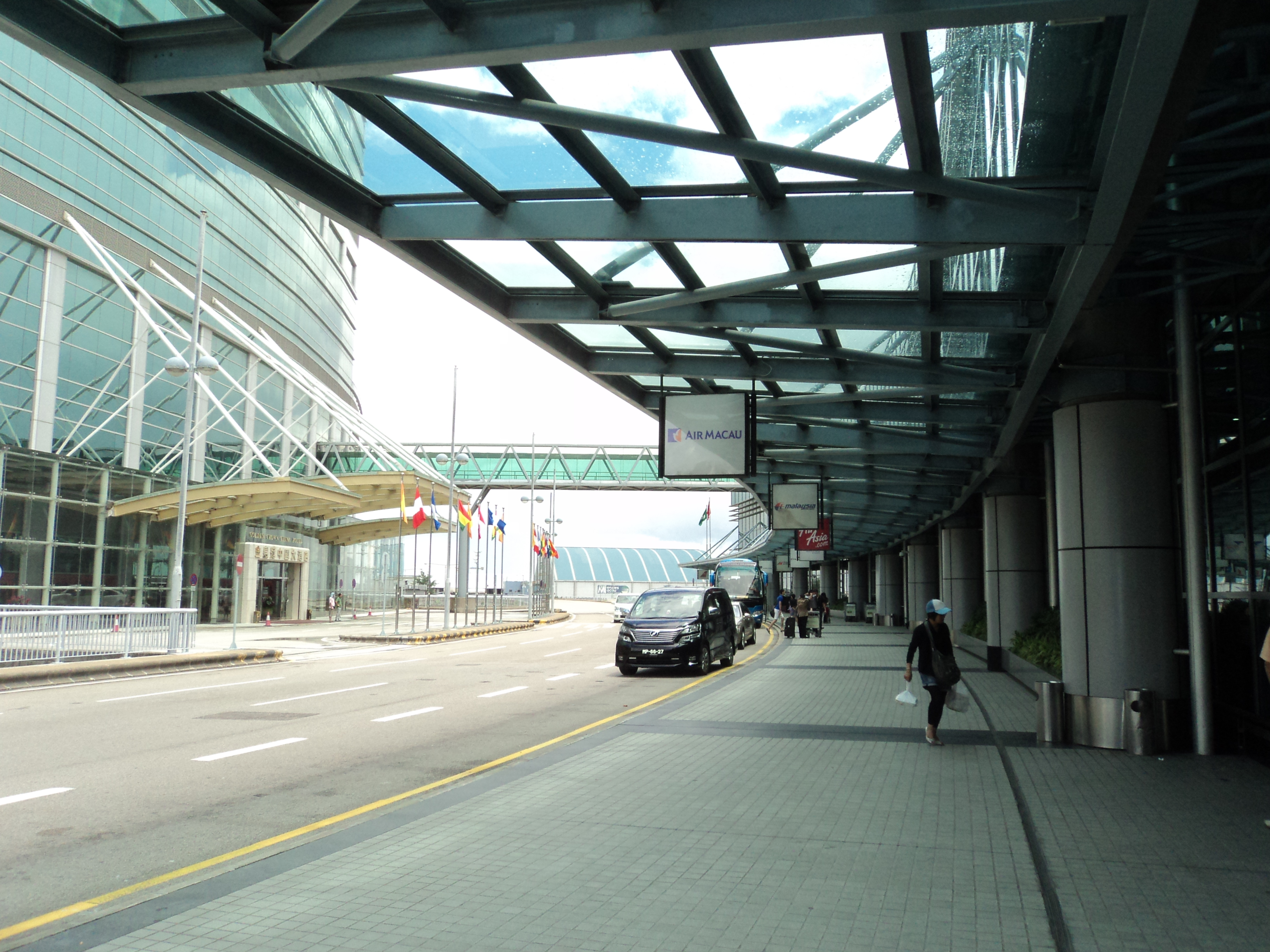 Macau Airport drop off area